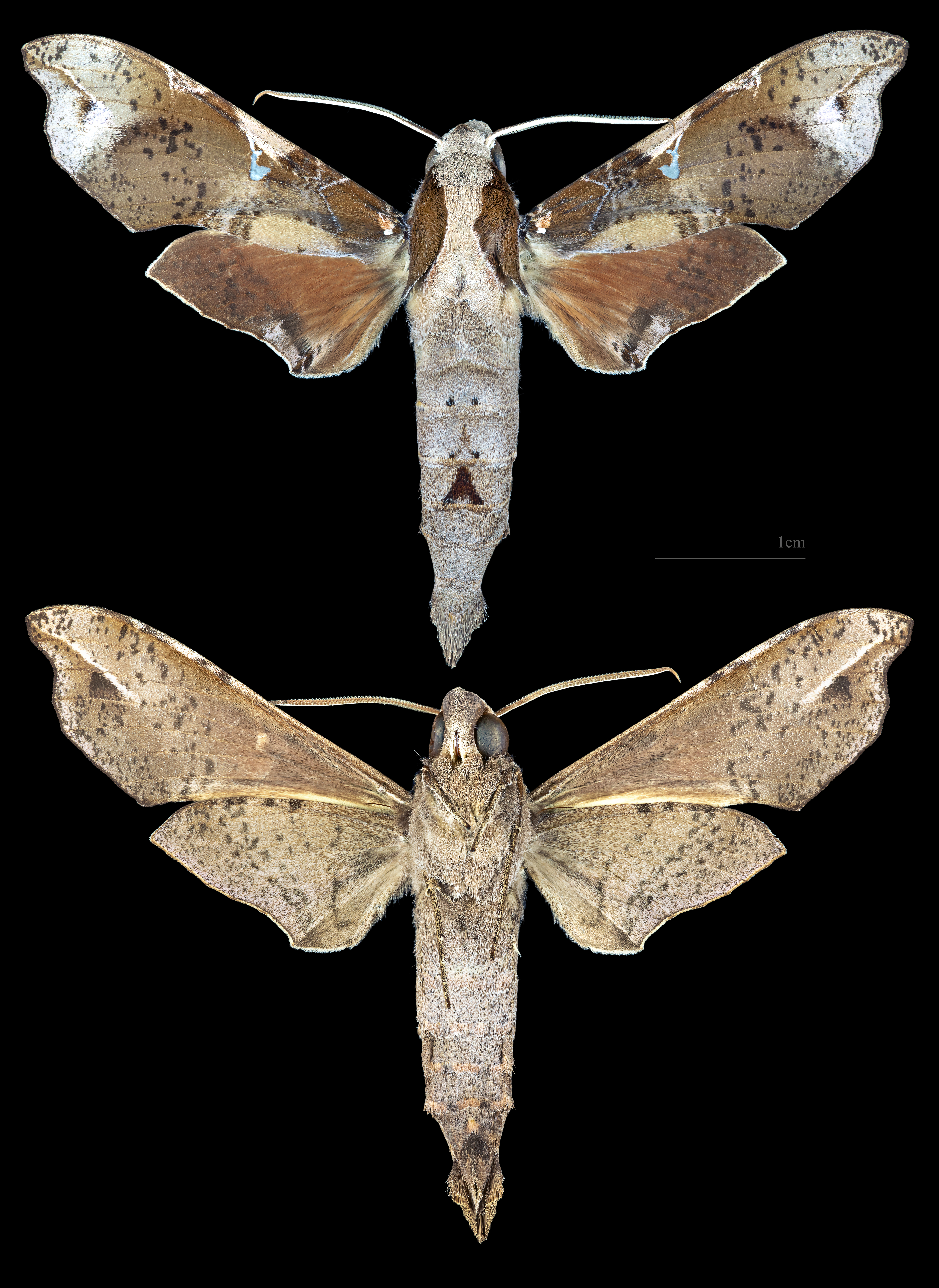 Callionima pan - Two views of same specimen Collection of the Mathematician Laurent Schwartz